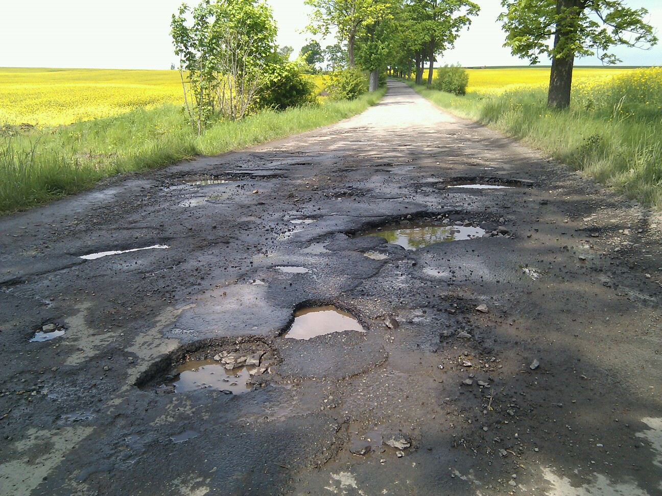 Roads near Kamieniec, Lower Silesia.